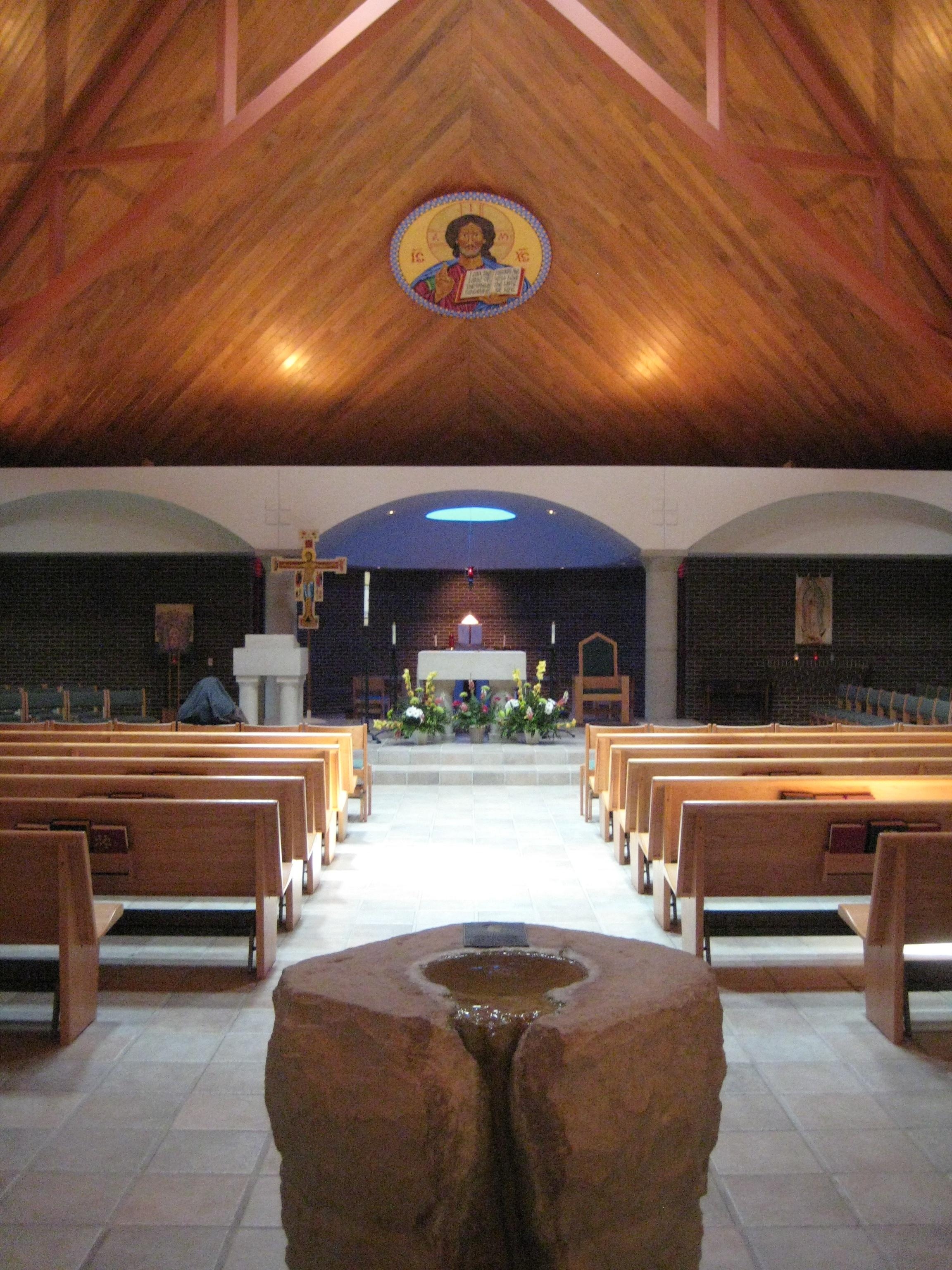 My own image.